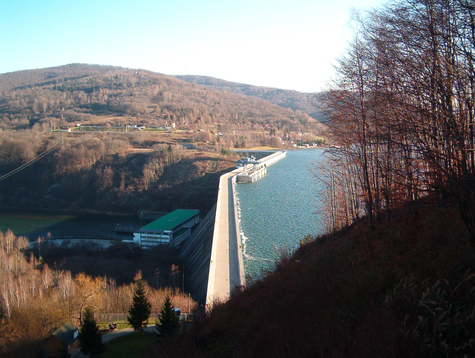 Solina Dam in autumn.